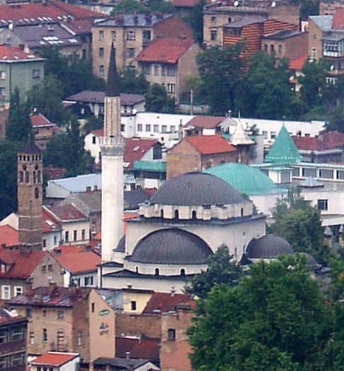 My own picture, taken in the summer of 2005.